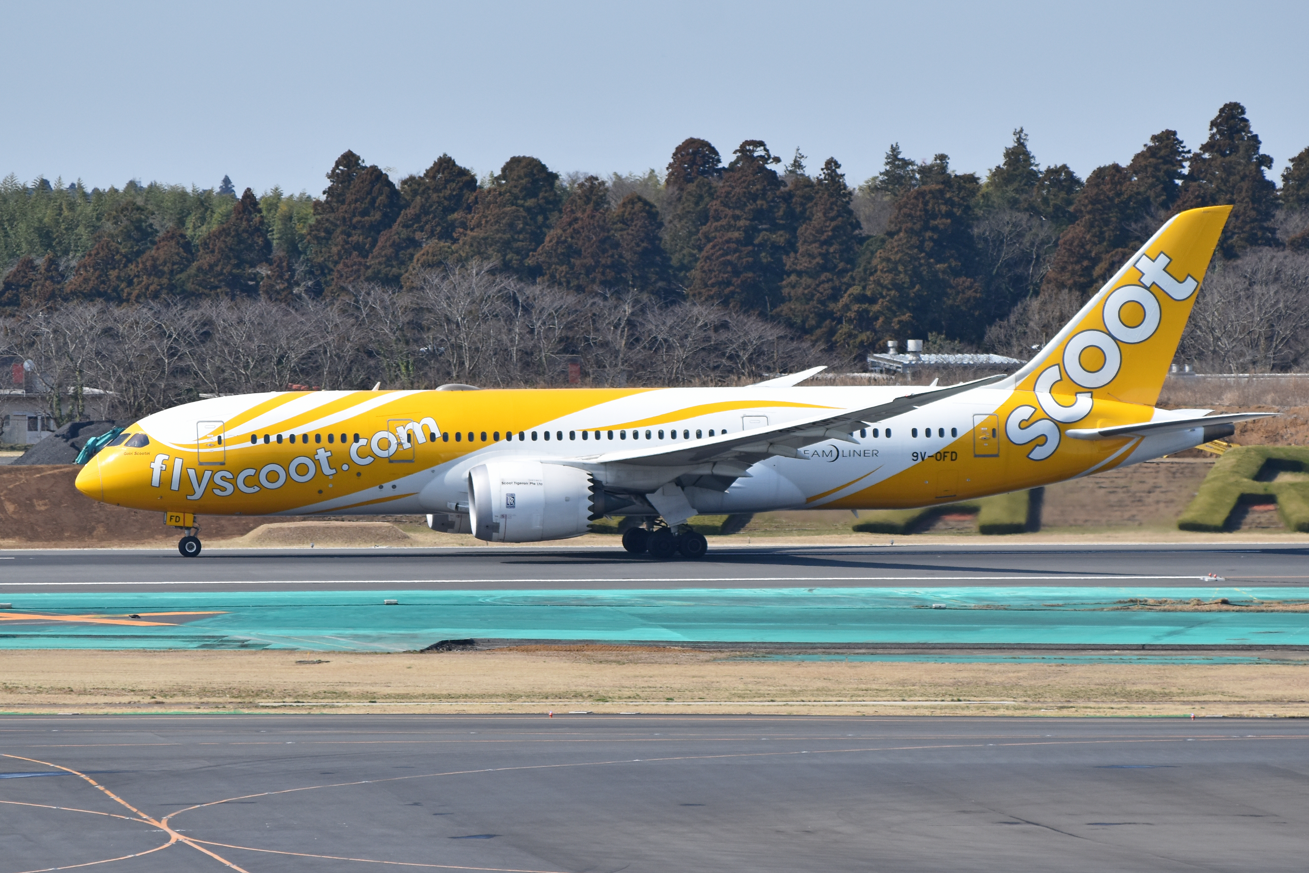 c/n 37121, l/n 375 Built 2015 Seen departing on flight TR869 / TGW869 to Singapore via Bangkok Narita International Airport Tokyo, Japan 17th March 2019